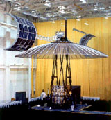 Author: NASA MSFC Source URL